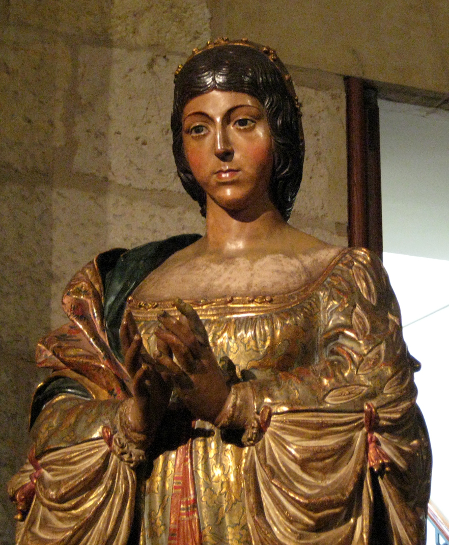 Statue of Isabelle of Castile by Bigarny. In Capilla Real of Granada